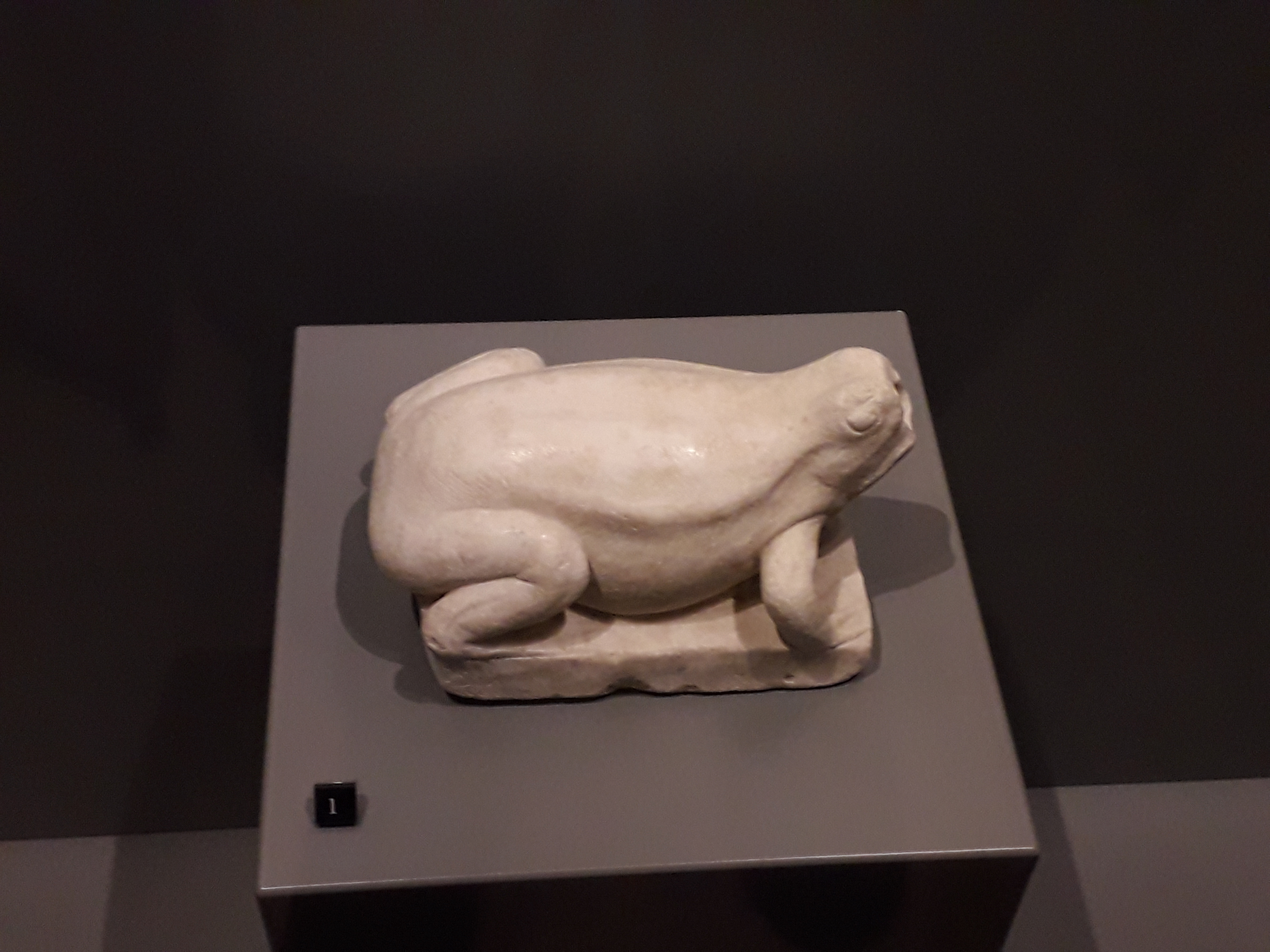 This marble frog is a part of a Pompeiian fountain from the 1st century AD. The water would go out of the mouth of the frog. The photo was taken on an exhibition in the Archeological Museum in Kraków, Poland.